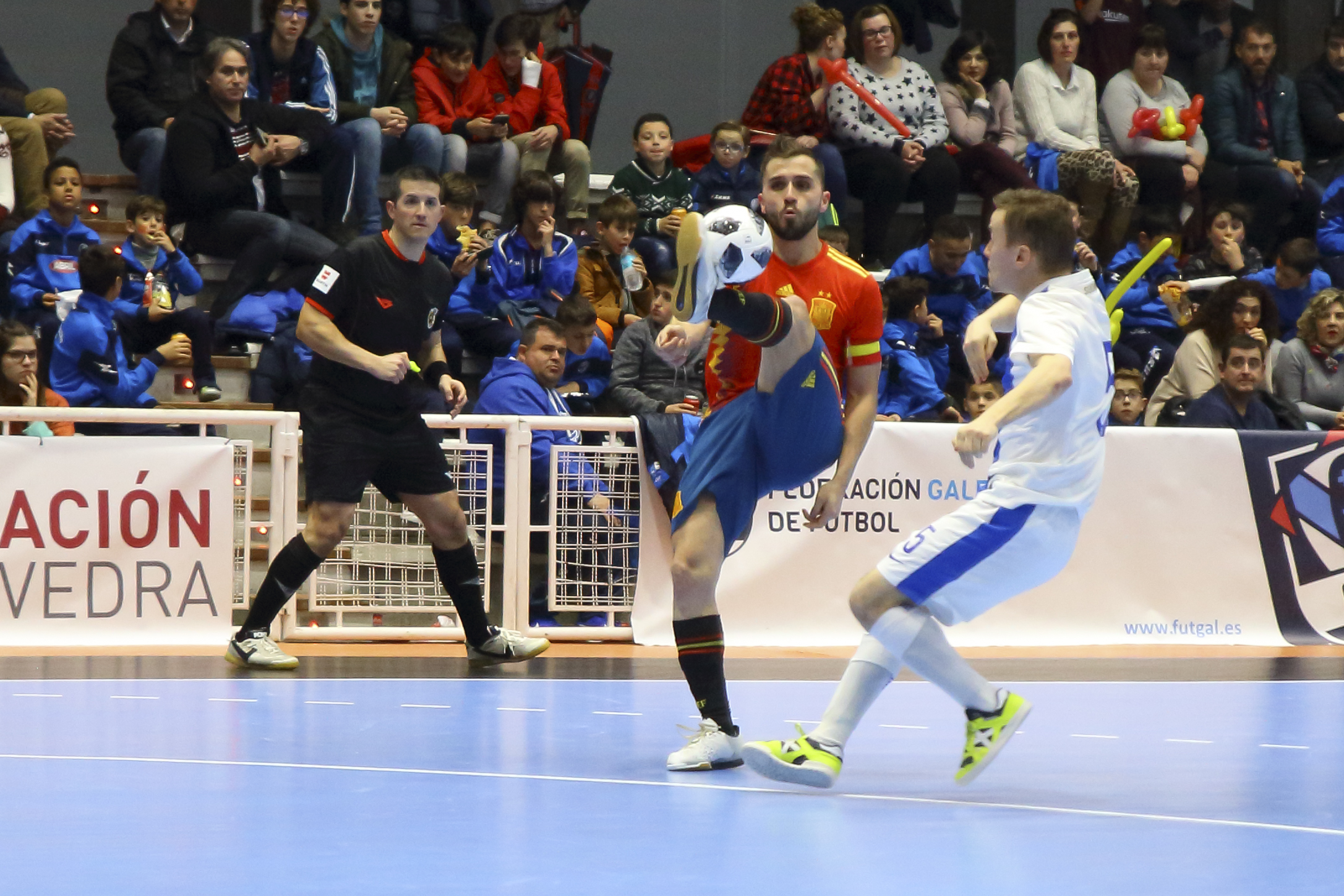 Futsal international friendly match between Spain and Finland at Pabellon Municipal de Pontevedra on April 2, 2018 in Pontevedra, Spain.